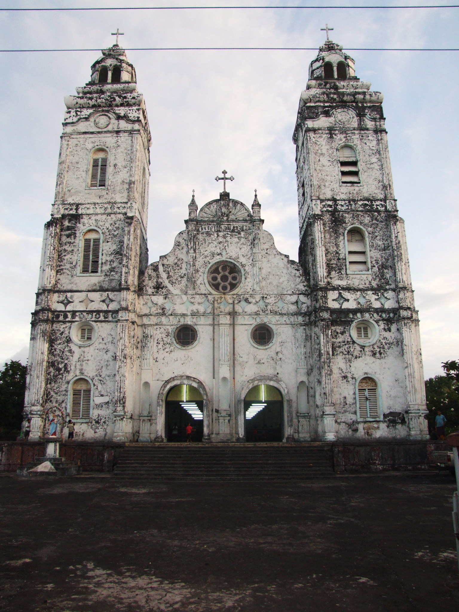 Historic Catholic church in Safotu village, Gagaifomauga district, north coast of Savai'i island in Samoa. Gagana Samoa: Falesa lotu pope i Safotu, le motu o Savai'i i Samoa, 2007